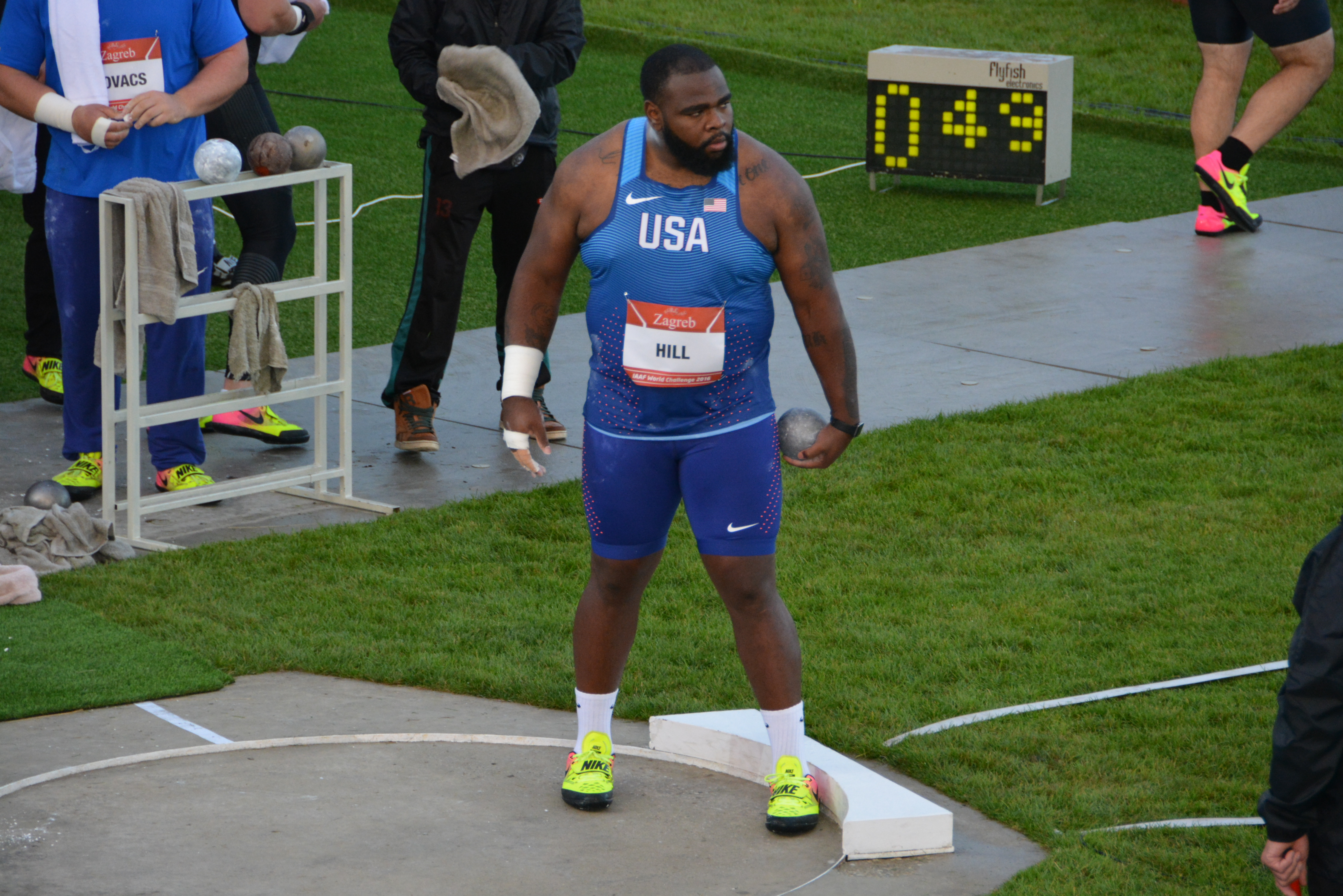 Darrell Hill at the 2016 Hanžeković Memorial in Zagreb.